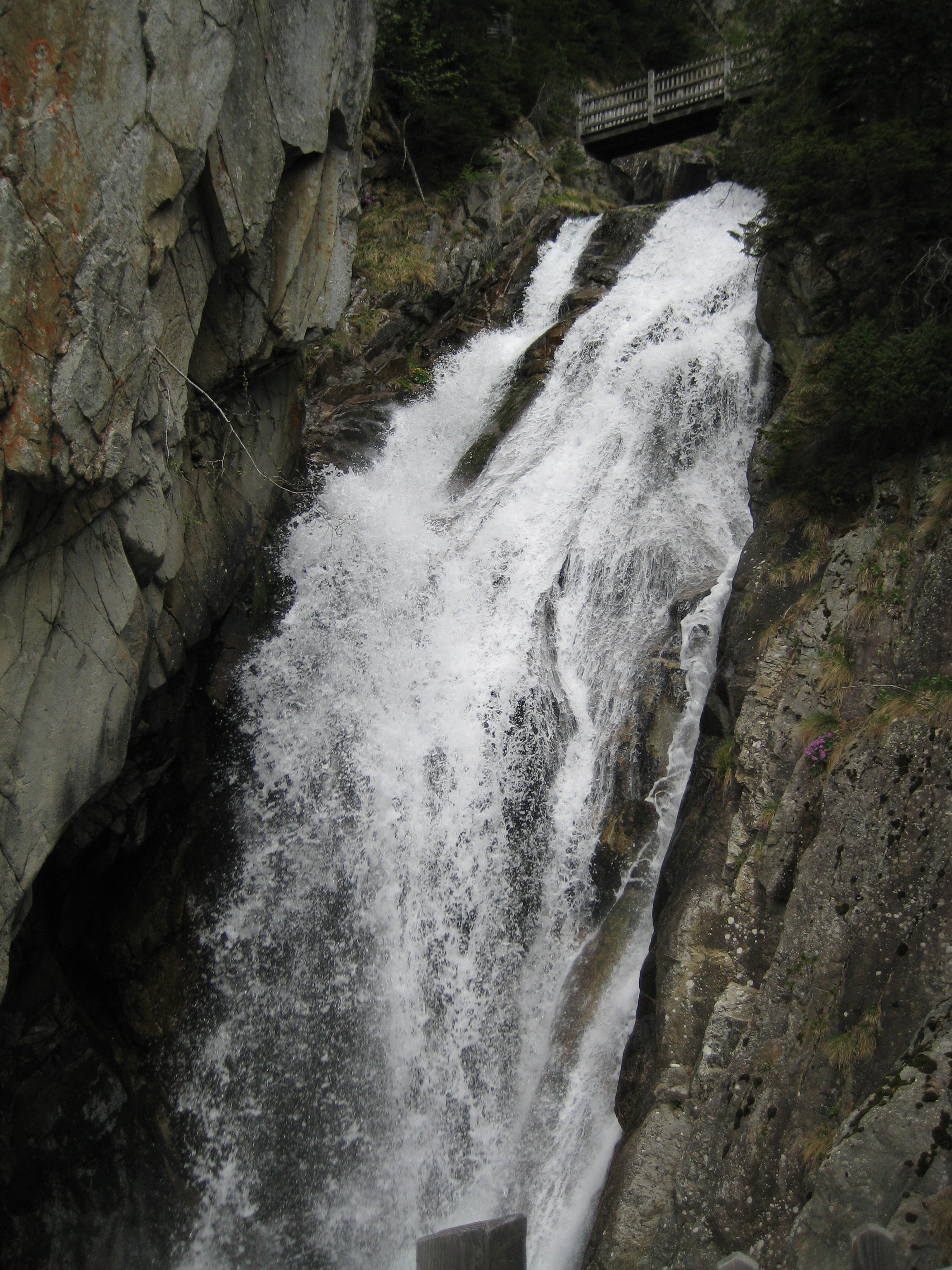 Waterfall of the river Salanfe, near Van d'en bas, Valais, Switzerland